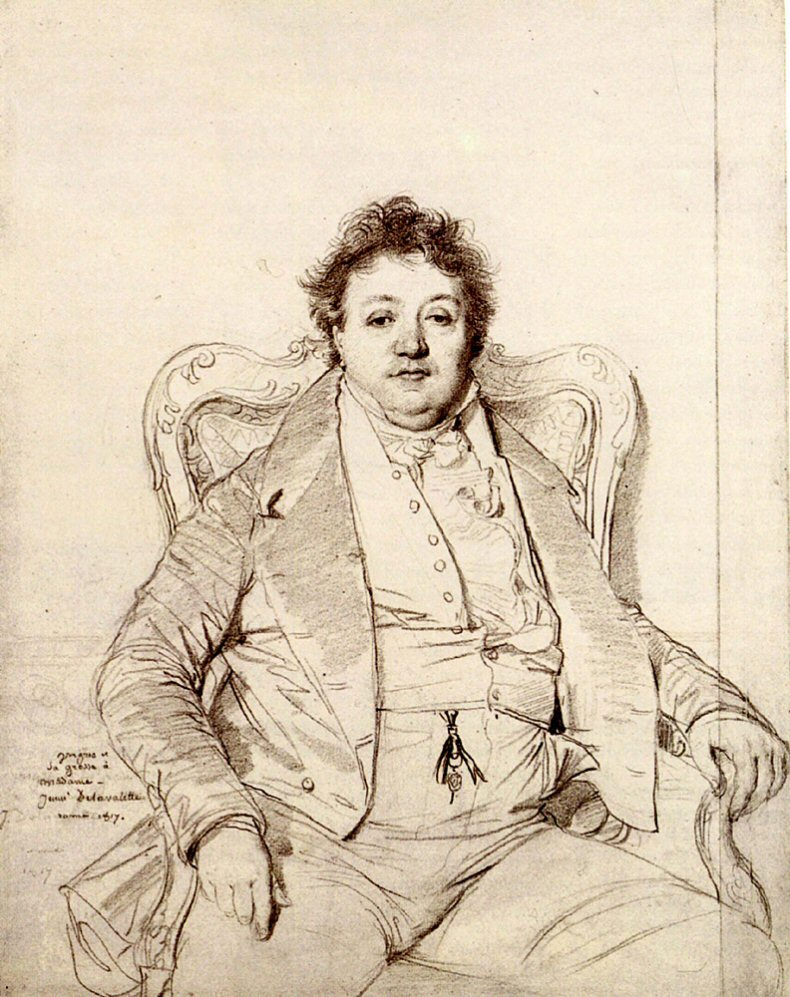 Portrait of French painter Charles Thévenin (1764-1838)